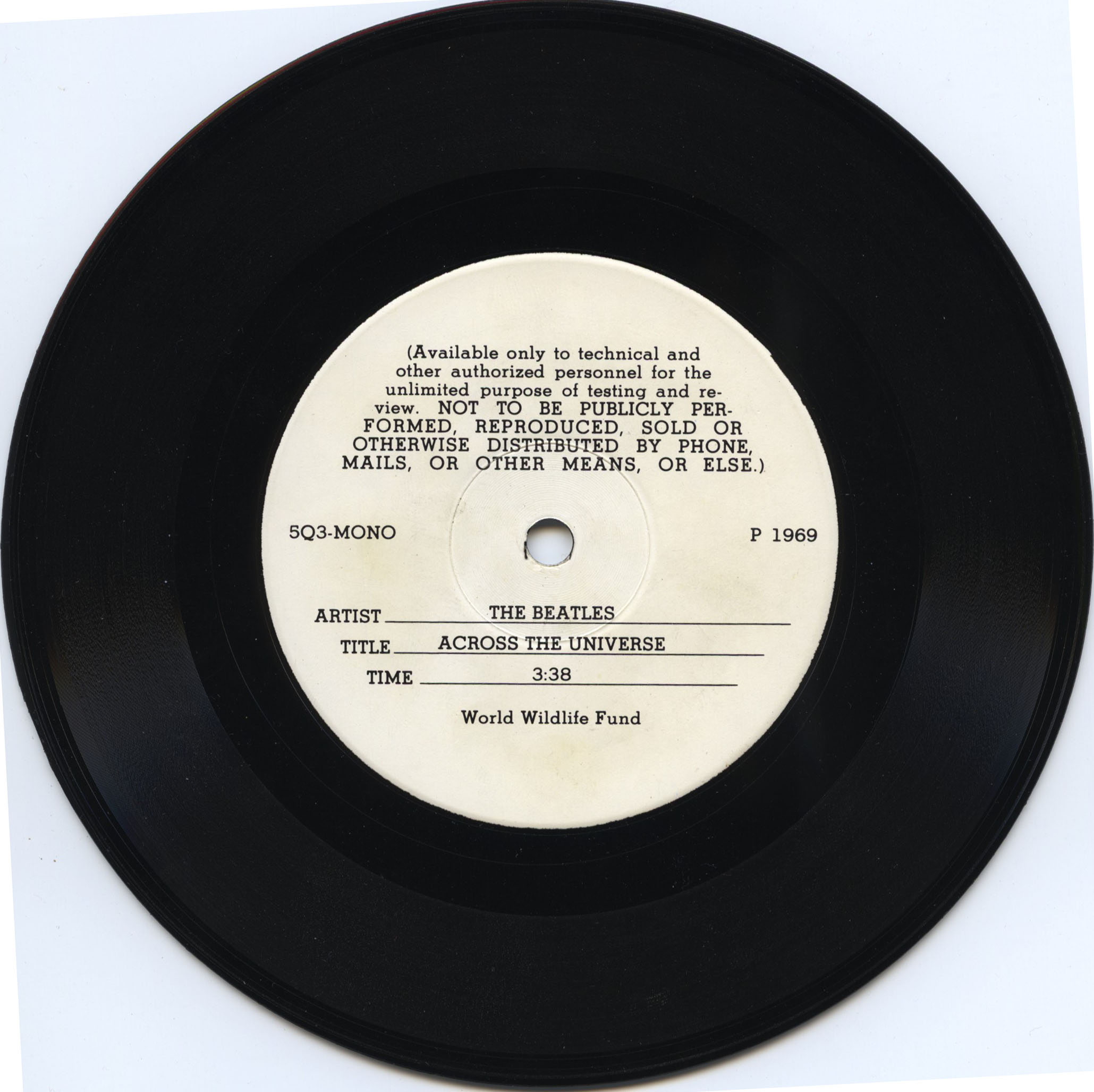 The Beatles, "Across The Universe", World Wildlife Fund, 3:38 version, mono, 33 RPM engineering pressing with calibration tones on the B side. No female backing vocals, slightly different sound-effects intro and guitar mixing than U.S. "Rarities" version.